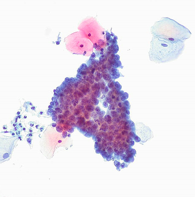 Cervical AIS, ThinPrep This is the most illustrative group on the ThinPrep, which was collected the same day as the cervical biopsy. There is at least one mitosis.